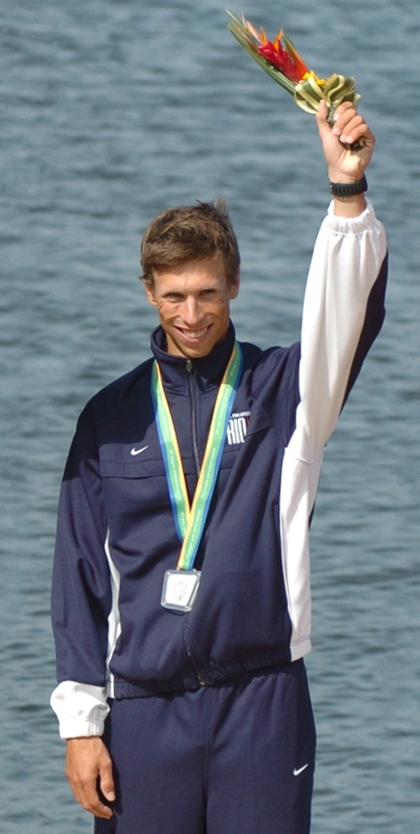 Andrew Bolton celebrates winning silver medals in the lightweight men's four event July 19 at the XV Pan American Games in Rio de Janeiro, Brazil.